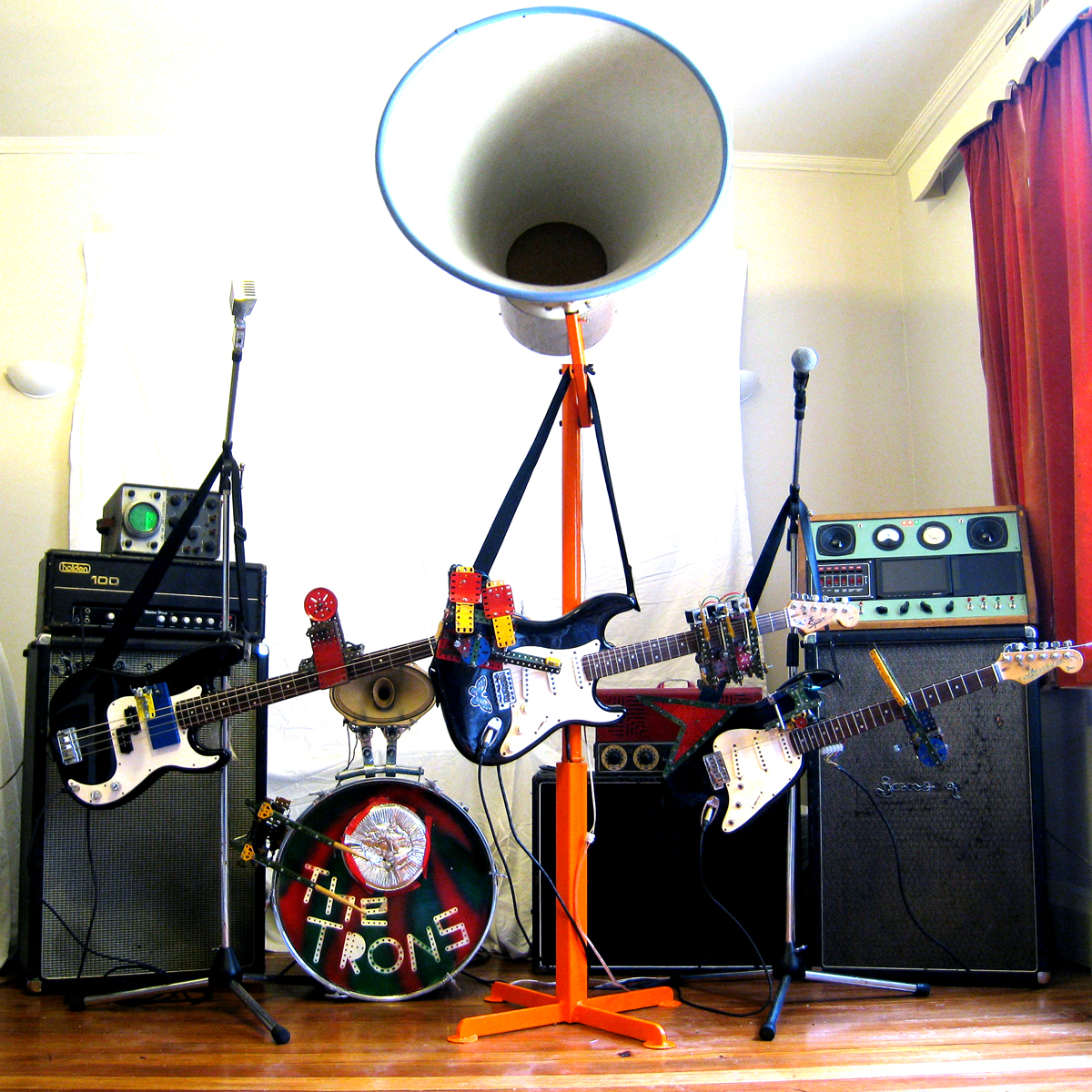 A photograph of New Zealand band "The Trons"